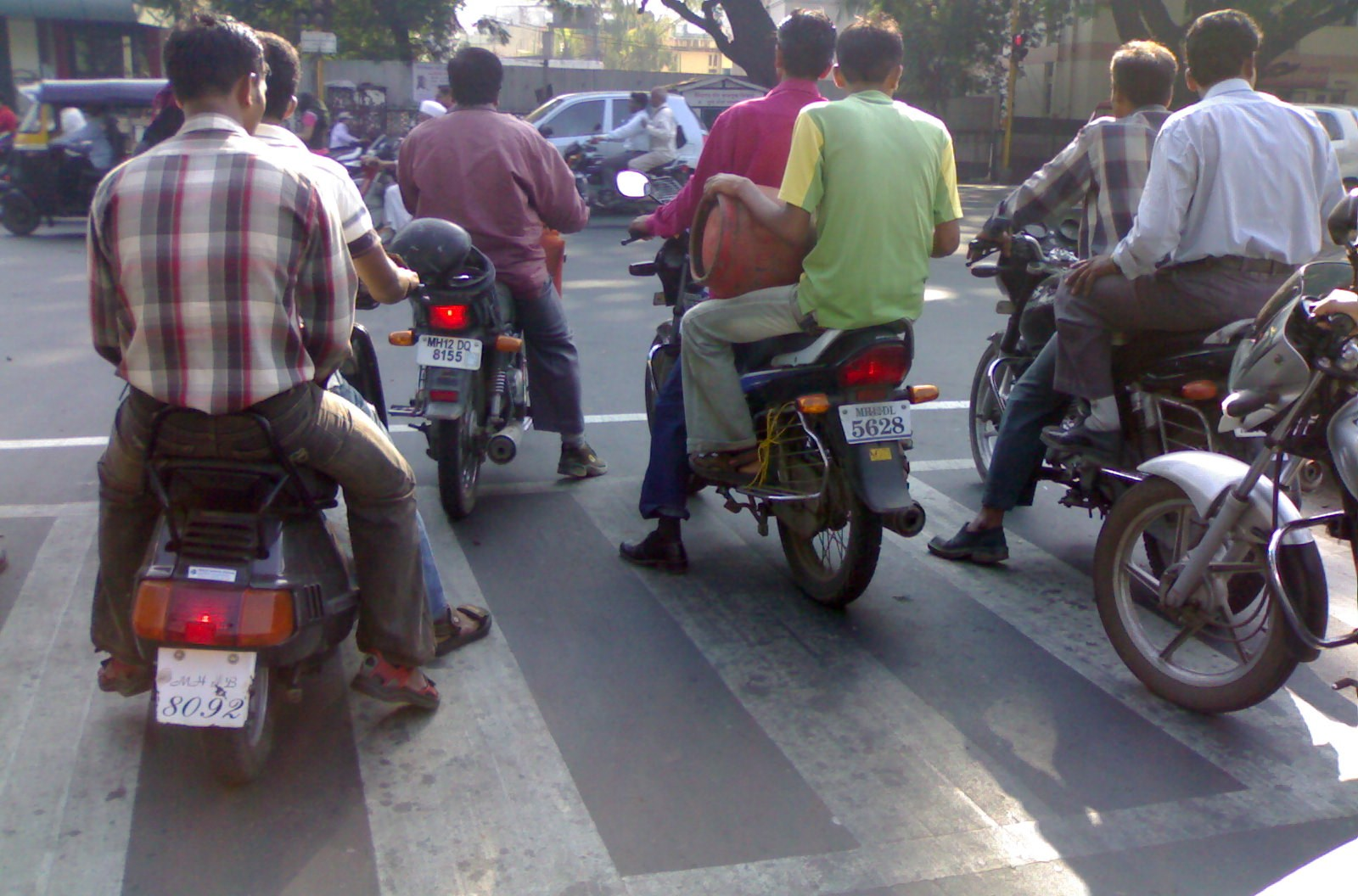 Two Wheelers Pune City Major Transport mode